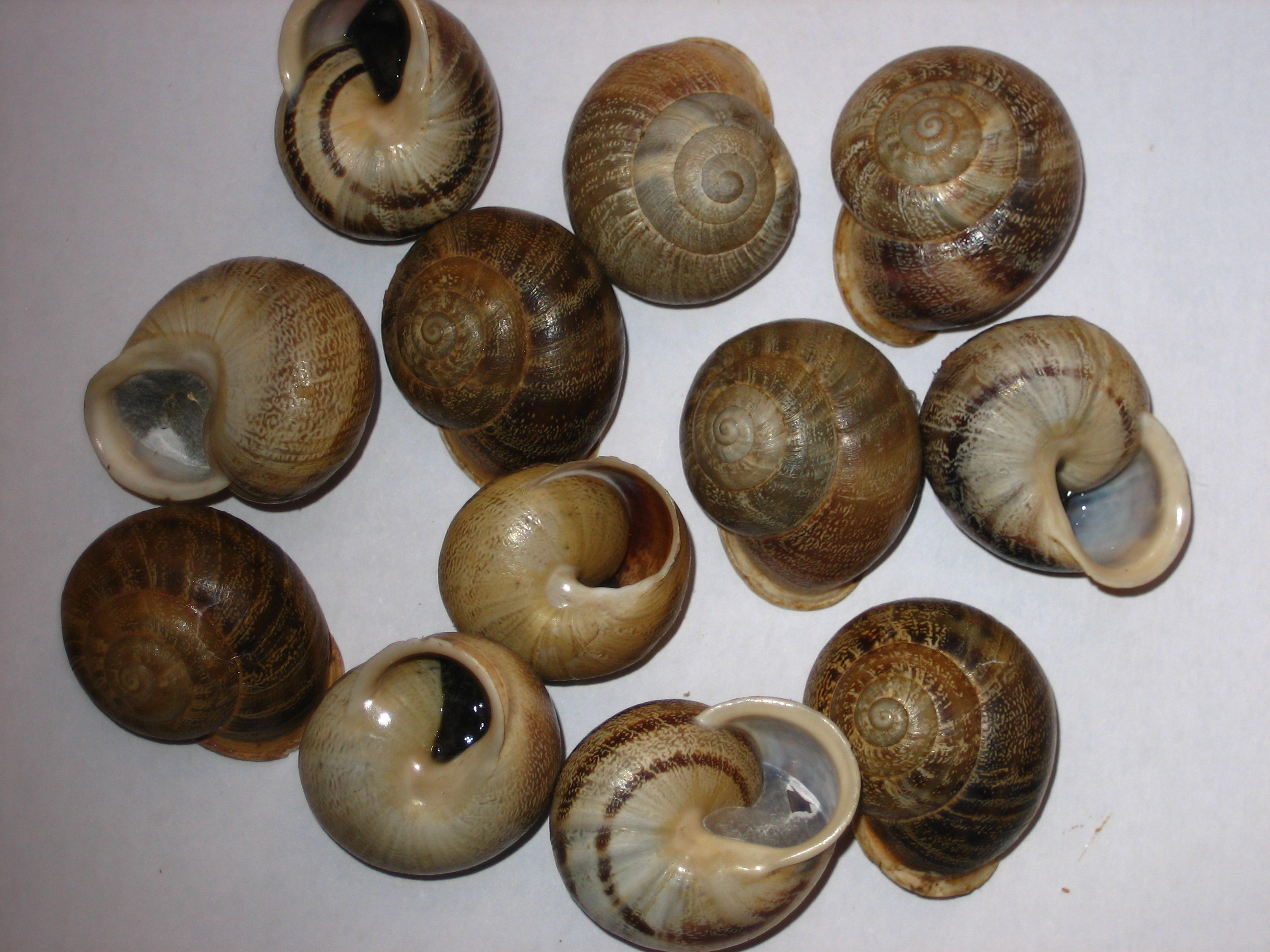 Eobania vermiculata from Alfara de Carles, near Tortosa (Spain) - Variability